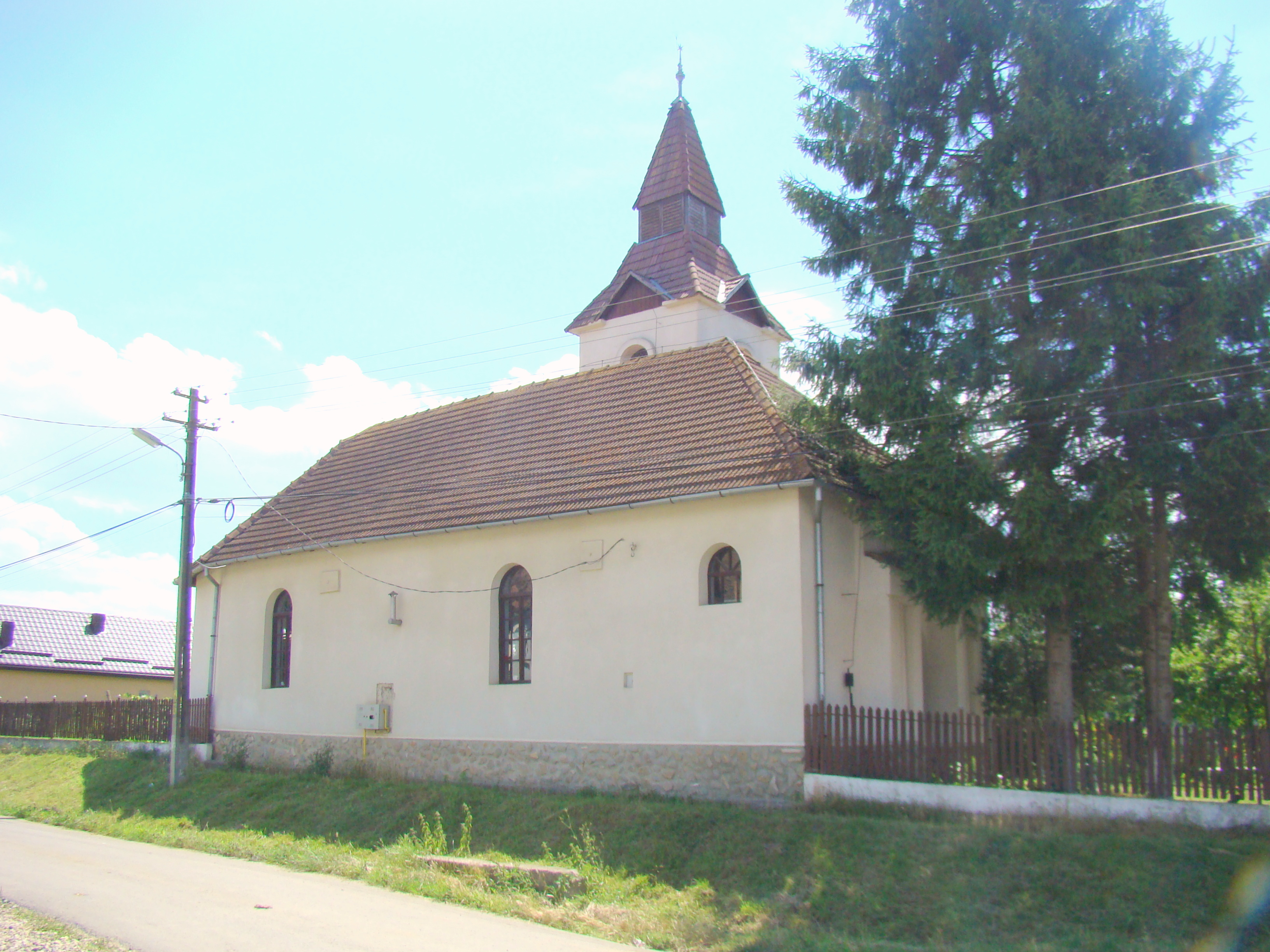 Reformed church in Deaj, Mureș county, Romania